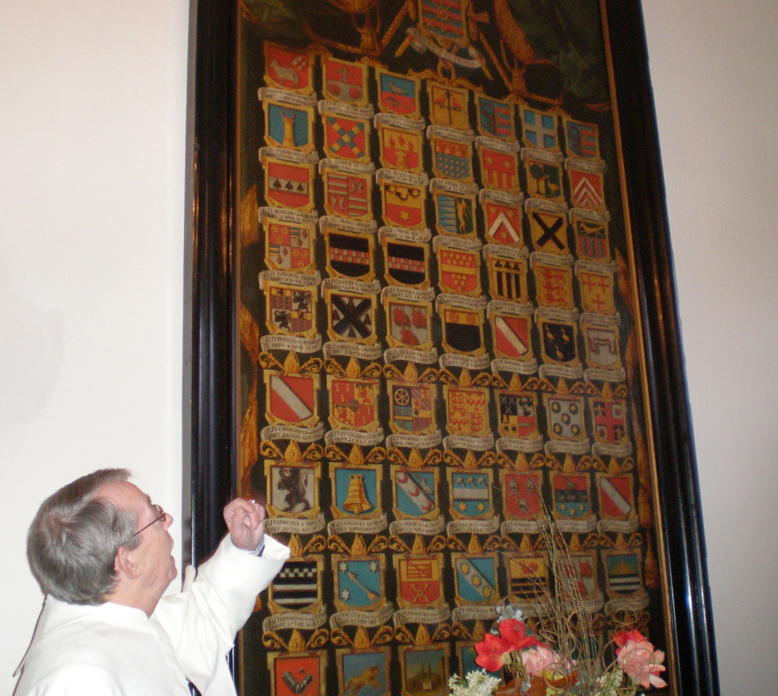 Wapenbord abten van Berne